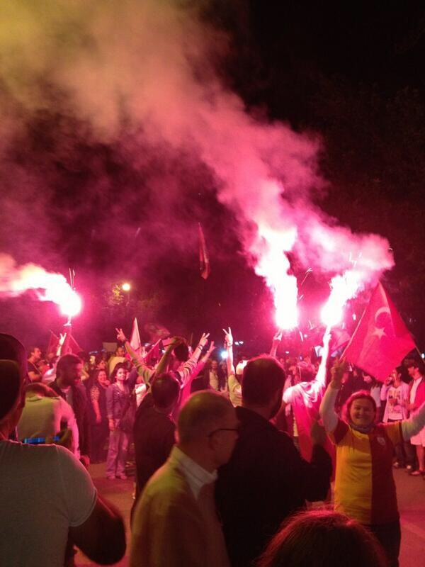 This photo was taken during the Gezi Park Protests at Ankara on June 2013. The location of the image is the city center of Ankara "Kizilay" by a local park called "Guvenpark". It can be seen from the image that protesters carry Turkish flags and torches.